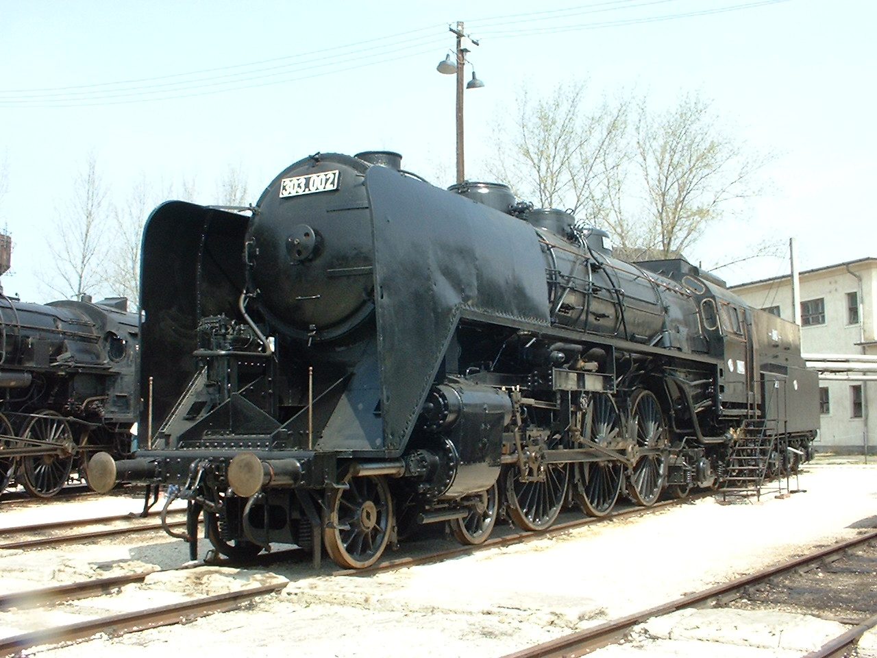 MAV No. 303.002 4-6-4 built MAVAG (Budapest) 1951 at the